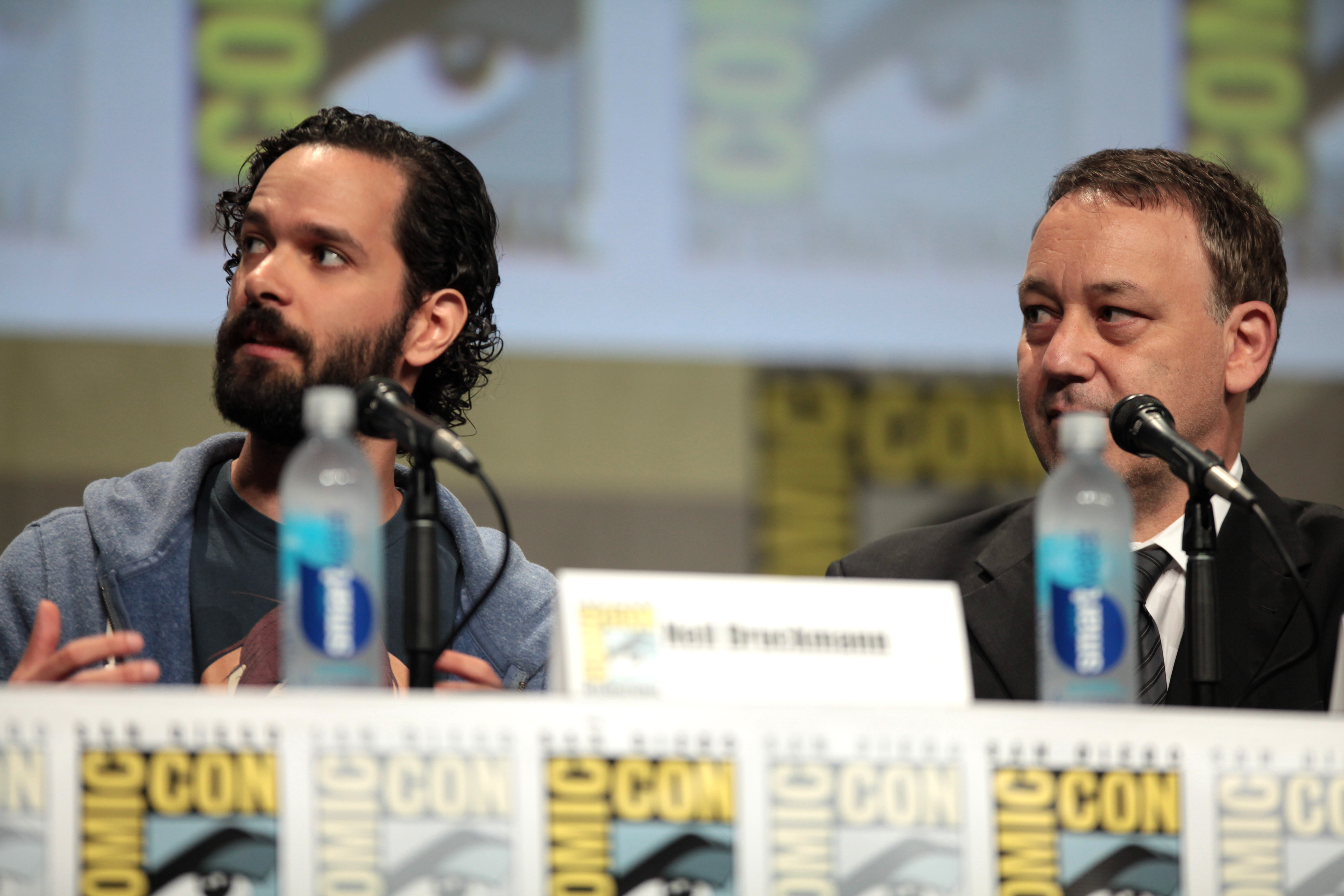 Neil Druckmann and Sam Raimi at San Diego Comic-Con 2014.